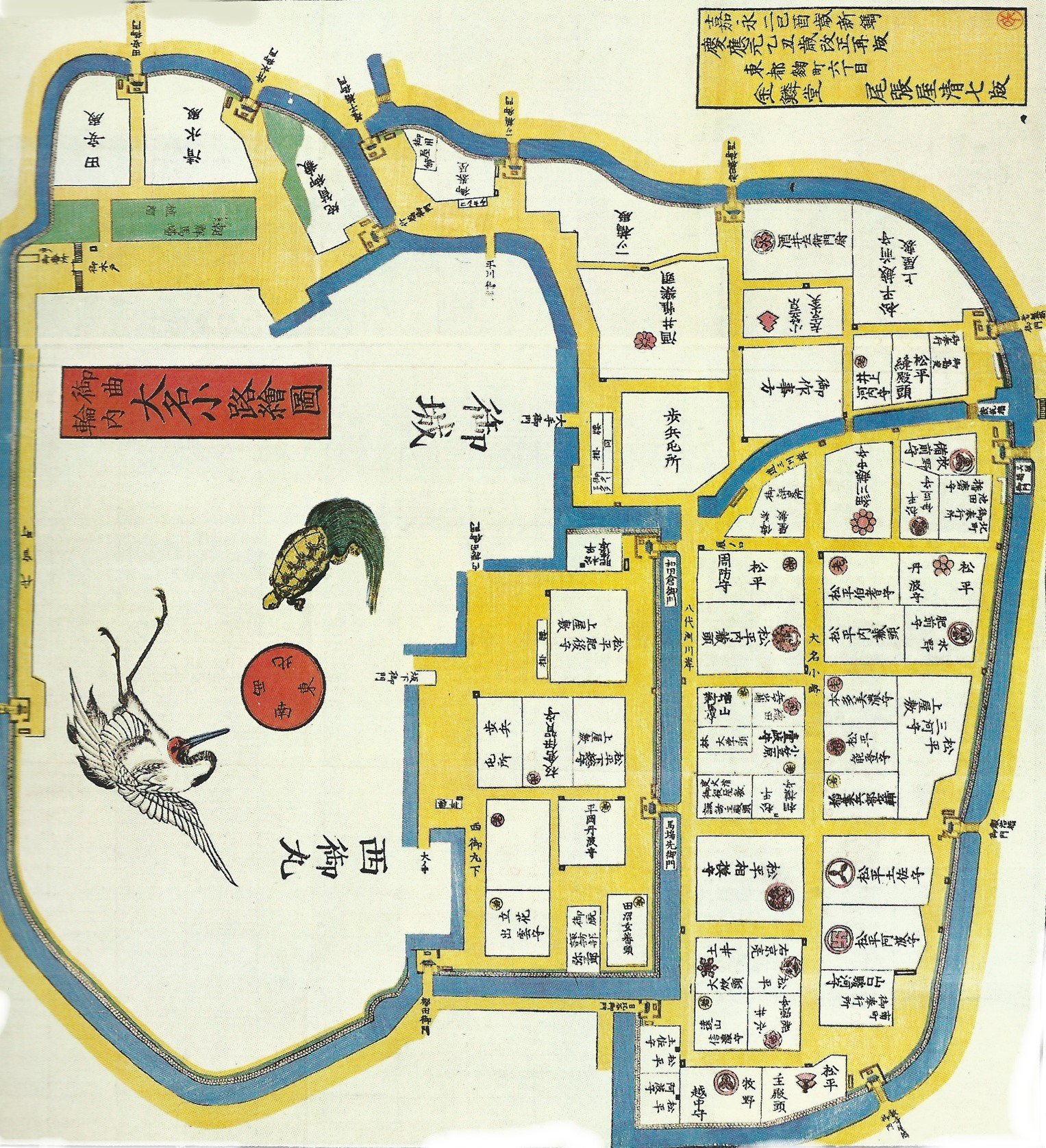 Map of central Edo